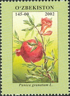 Stamps of Uzbekistan, 2002